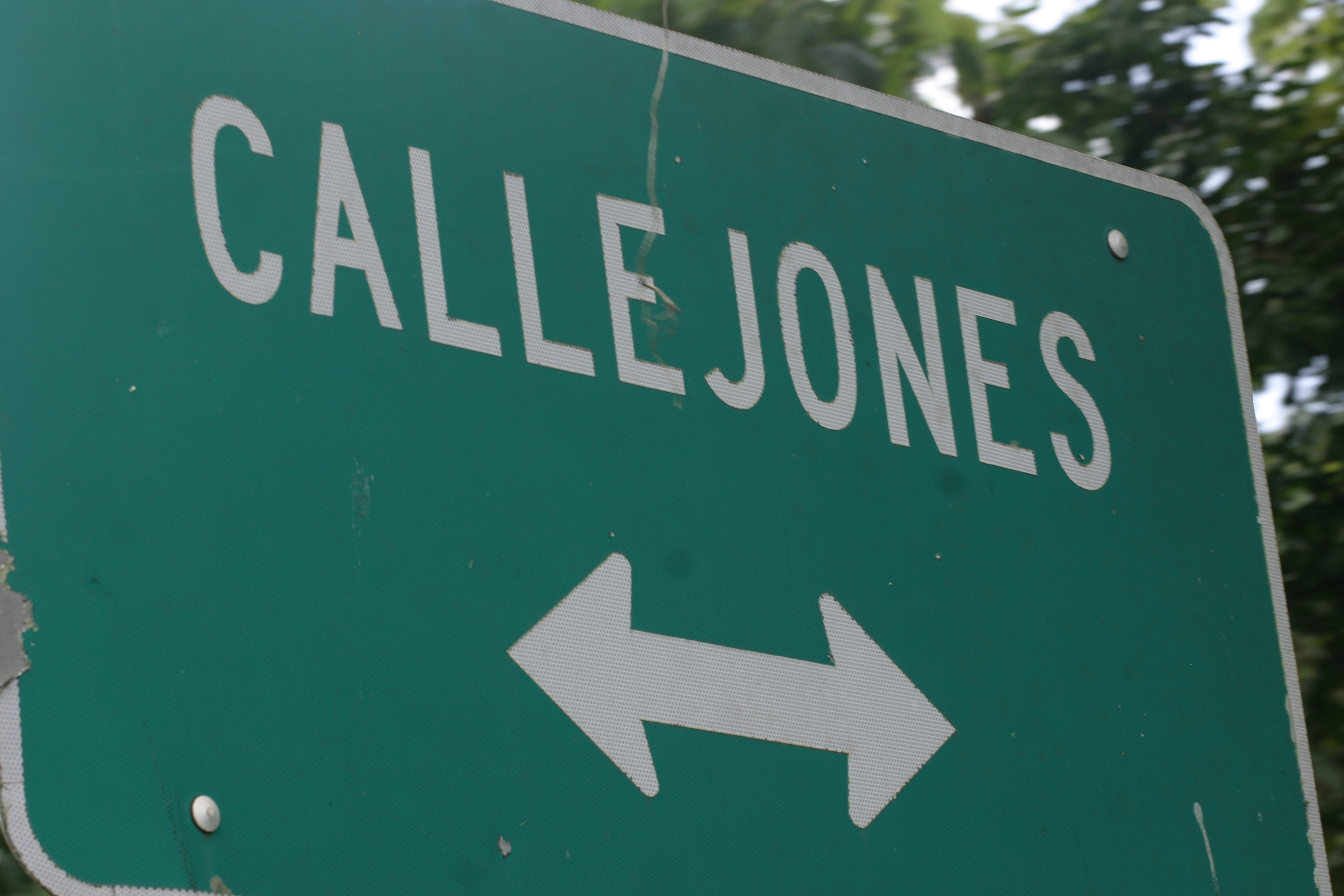 Callejones